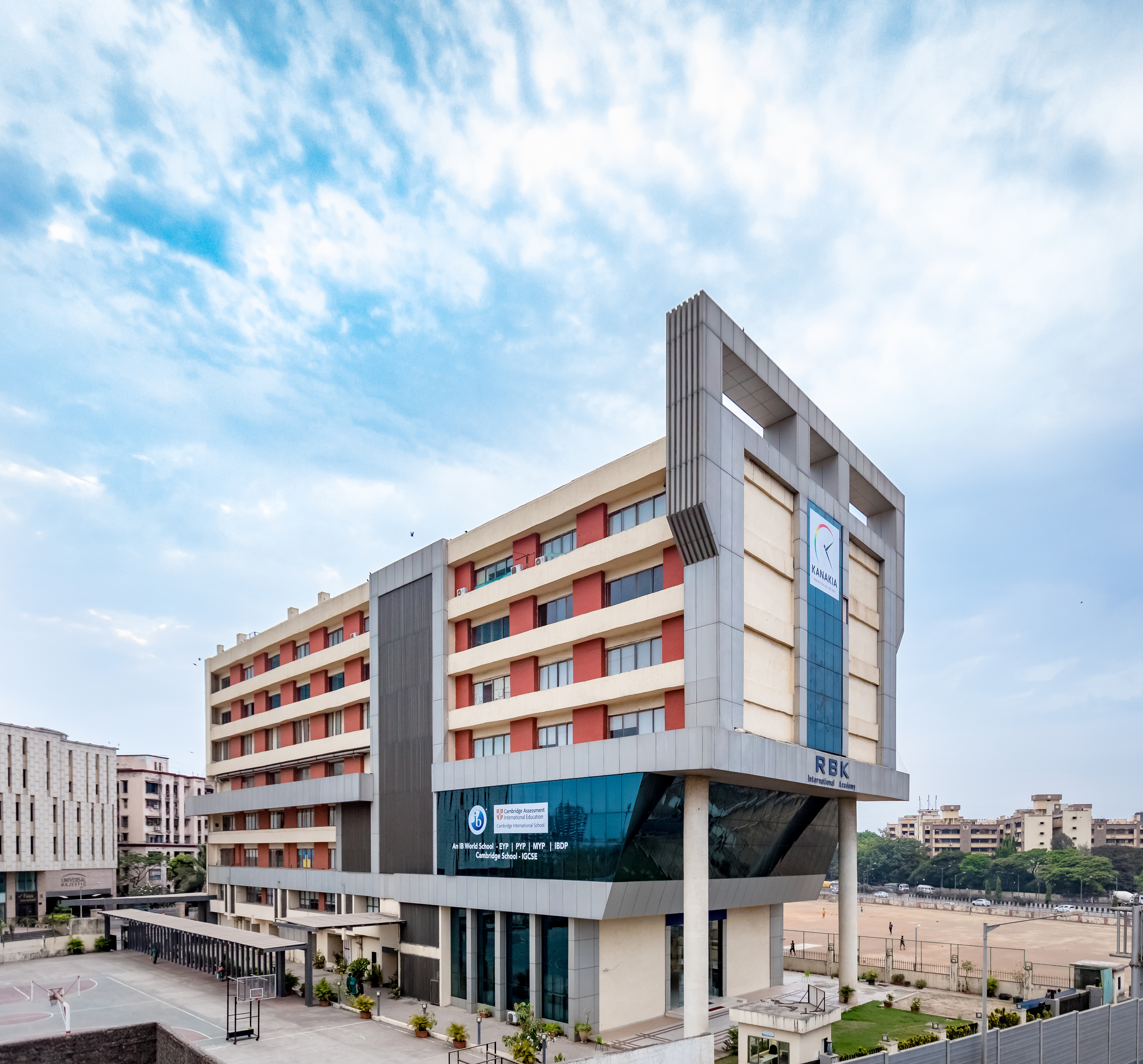 School Building